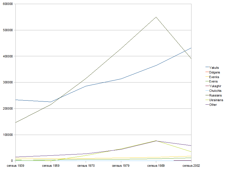 Graph of Sakha Republic's population as measured over several years by the Russian/Soviet census.